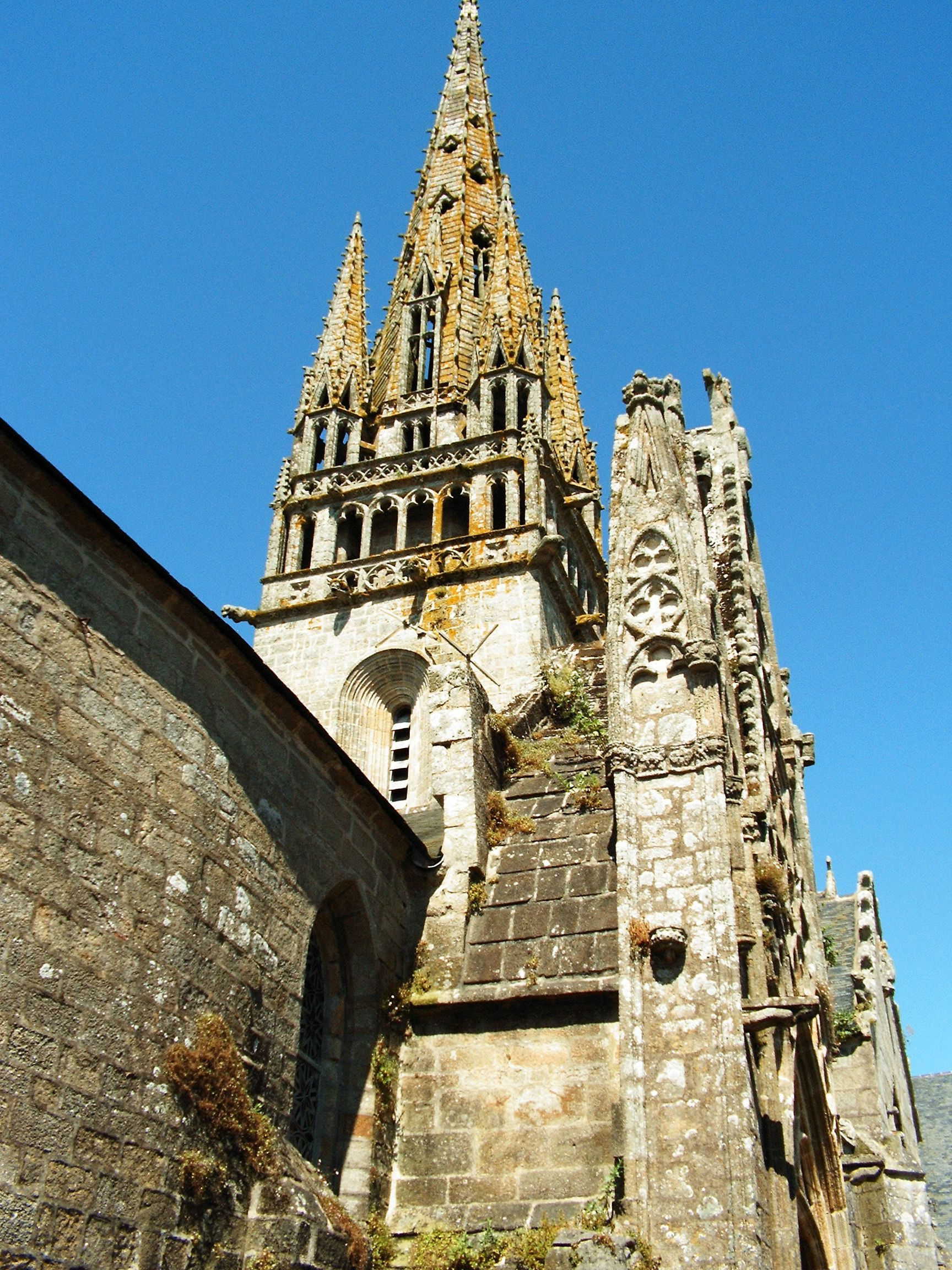 Notre-Dame-de-Roscudon bell tower (about 1450).